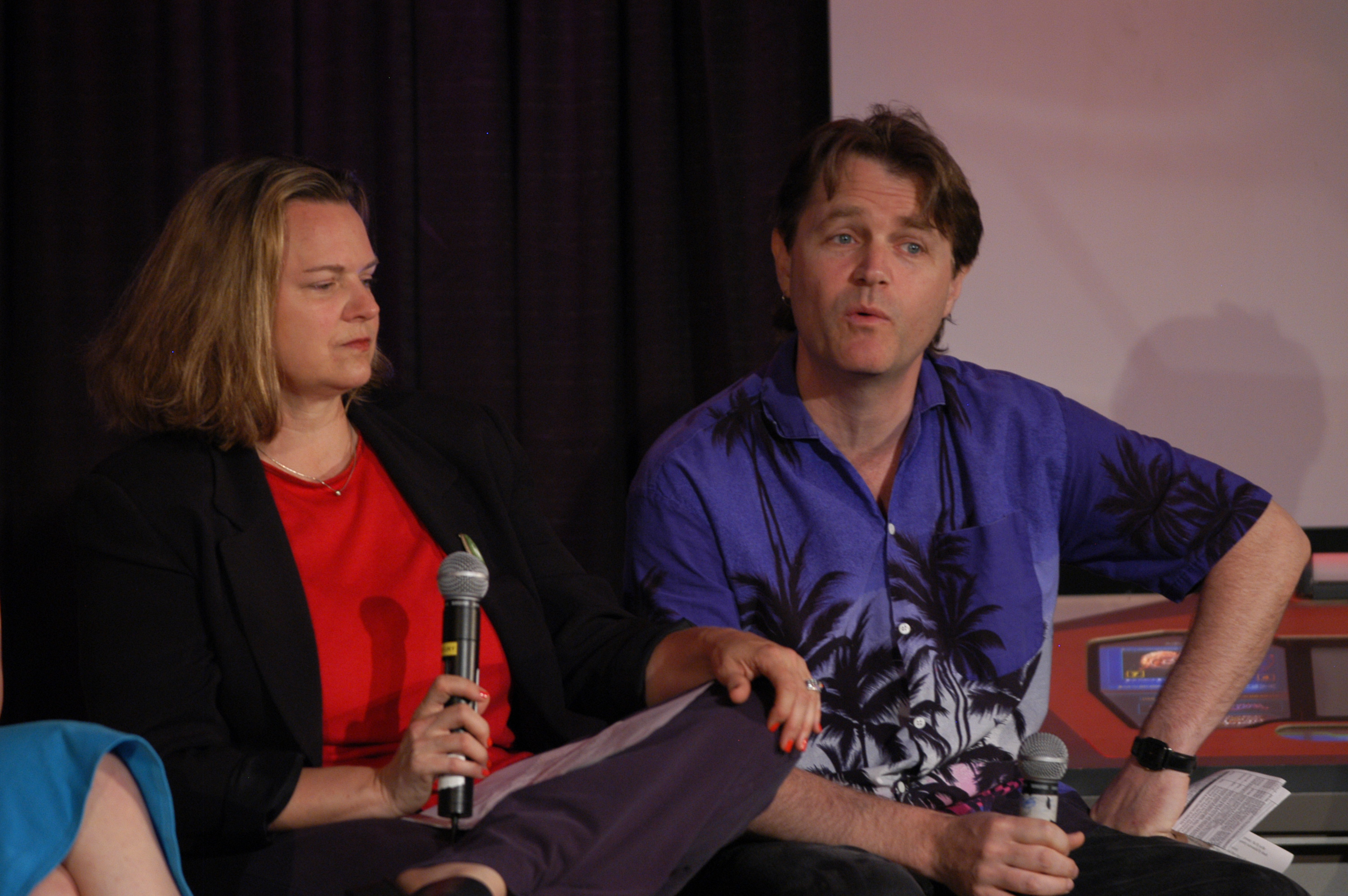 Ali Marie Matheson and Jon Cooksey at the Gatecon 2005 convention in Vancouver (Canada).